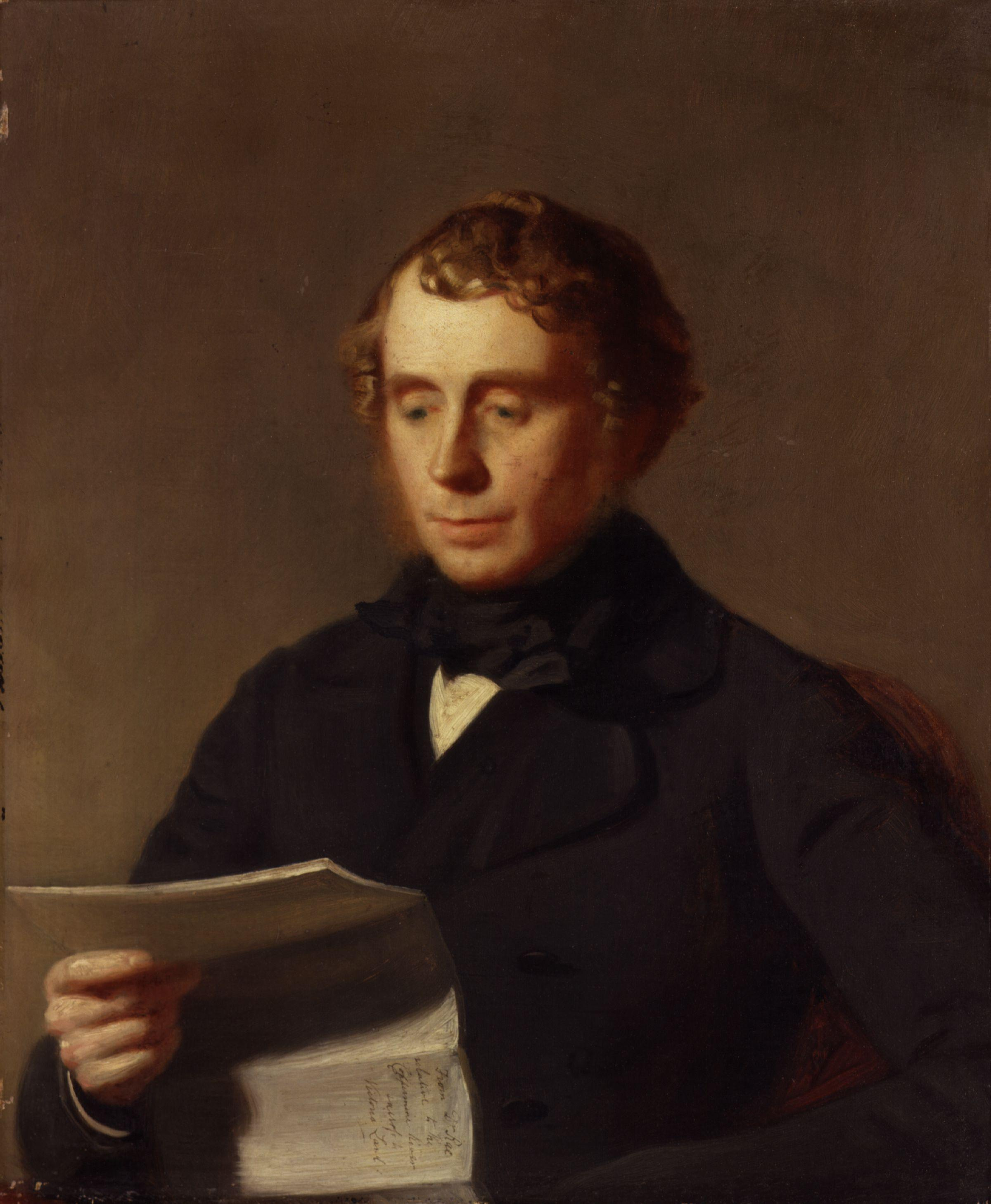 William Alexander Baillie Hamilton, by Stephen Pearce (died 1904). All images in this batch have been confirmed as author died before 1939 according to the official death date listed by the NPG.